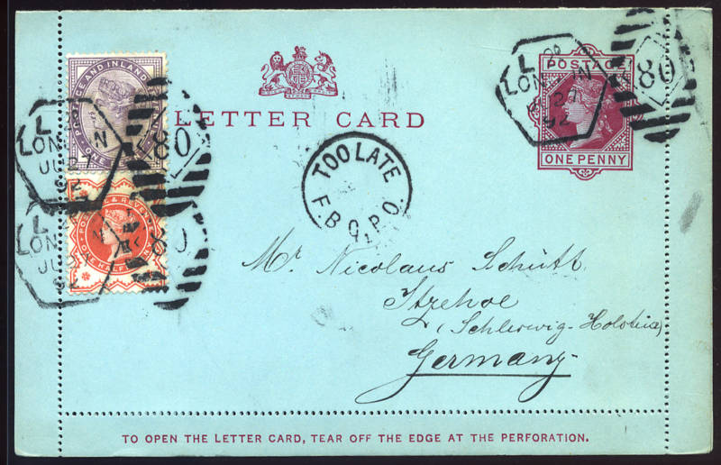 1892 (June 27) use of postal stationery letter card with 1d (one penny) indicium (imprinted stamp) uprated with a 1d and 1/2d postage stamps sent from London to Germany, also shows undated circular "TOO LATE FBGPO" (Foreign Branch General Post Office) handstamp. All selvages are complete.